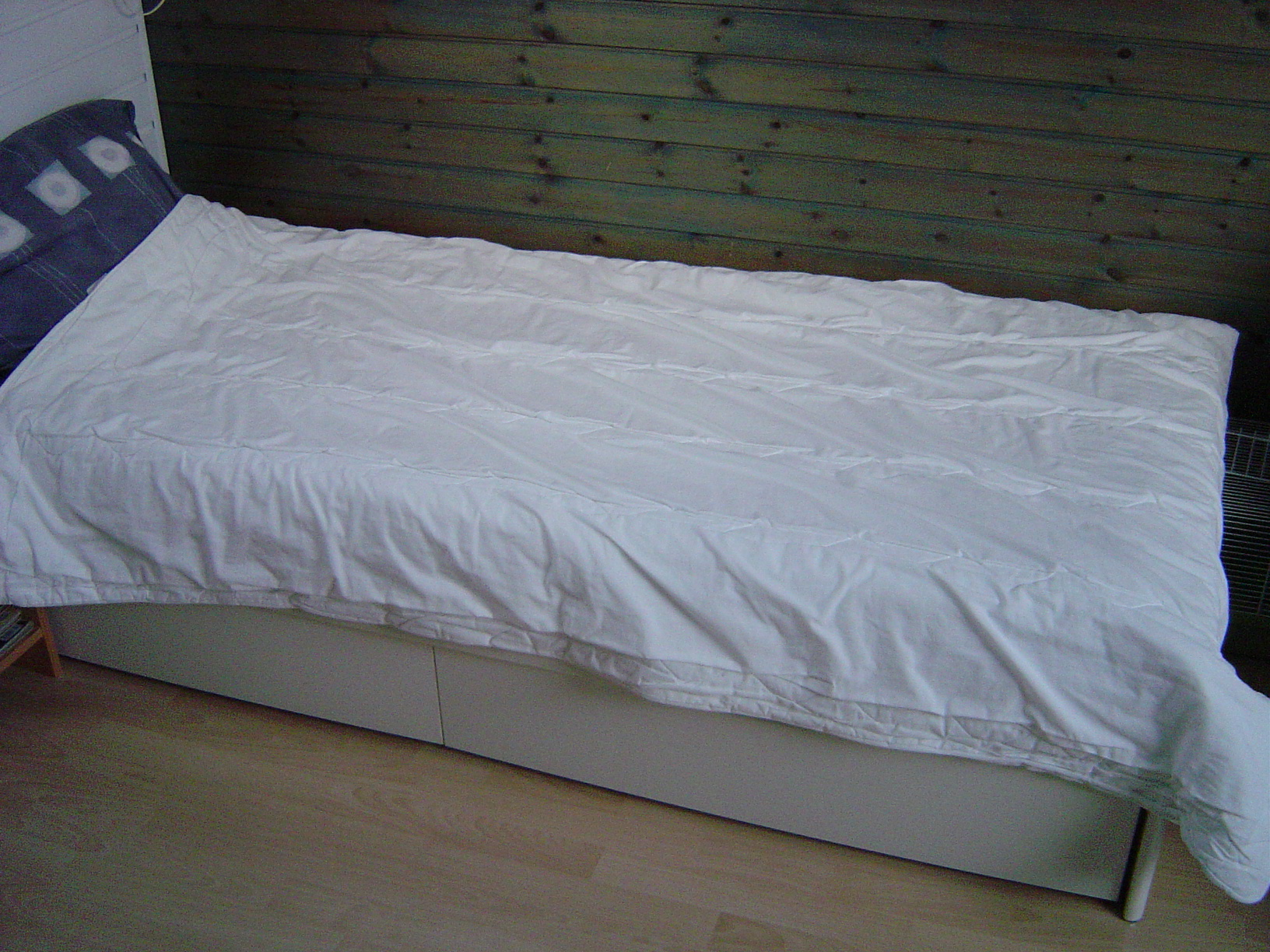 Bed with a comforter or duvet (without duvetcover) on it.